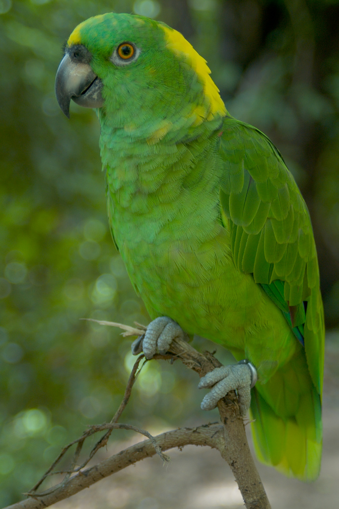 A Yellow-naped Amazon at the Roatan Tropical Butterfly Garden, Honduras.